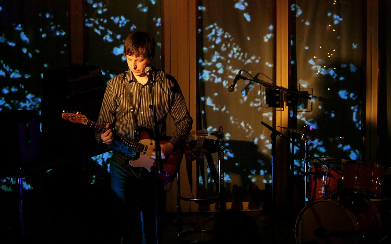 Rotifer presenting his album "The Hosting Couple", Stefan Franke: bass, Thomas „Kantine“ Pronai: drums (Gartenbaukino, Vienna).